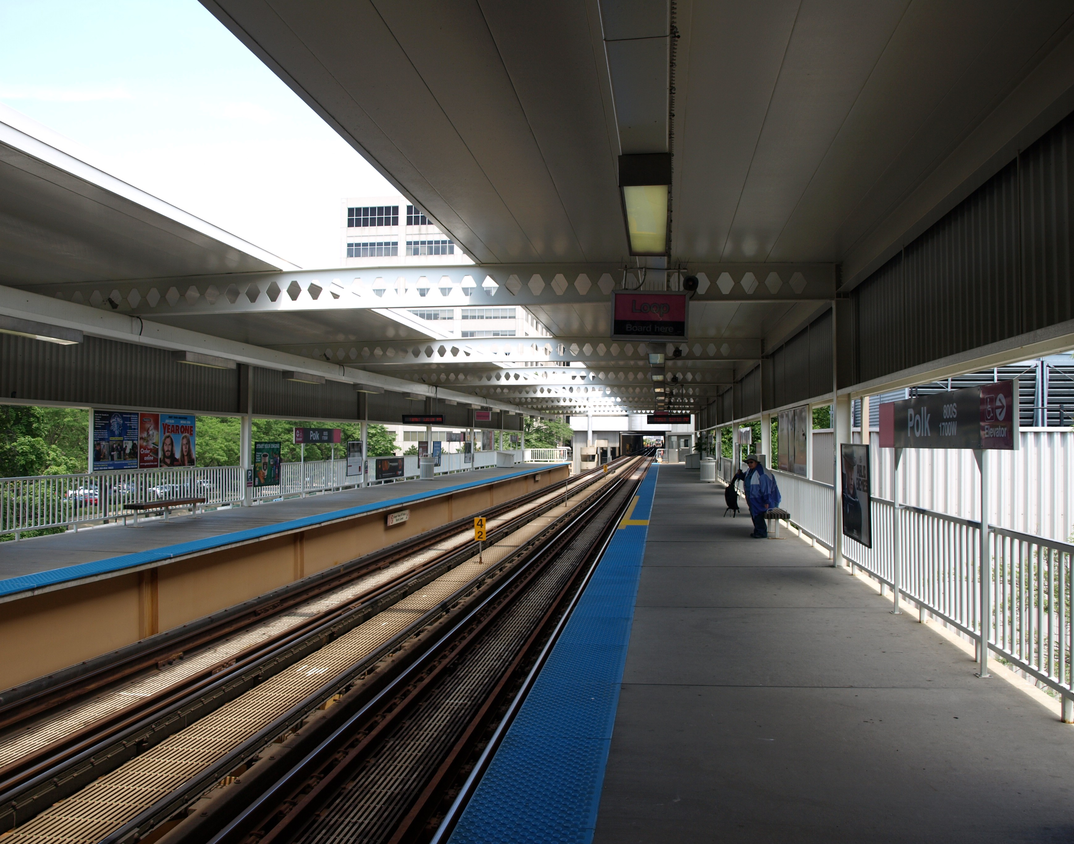 View to the north.